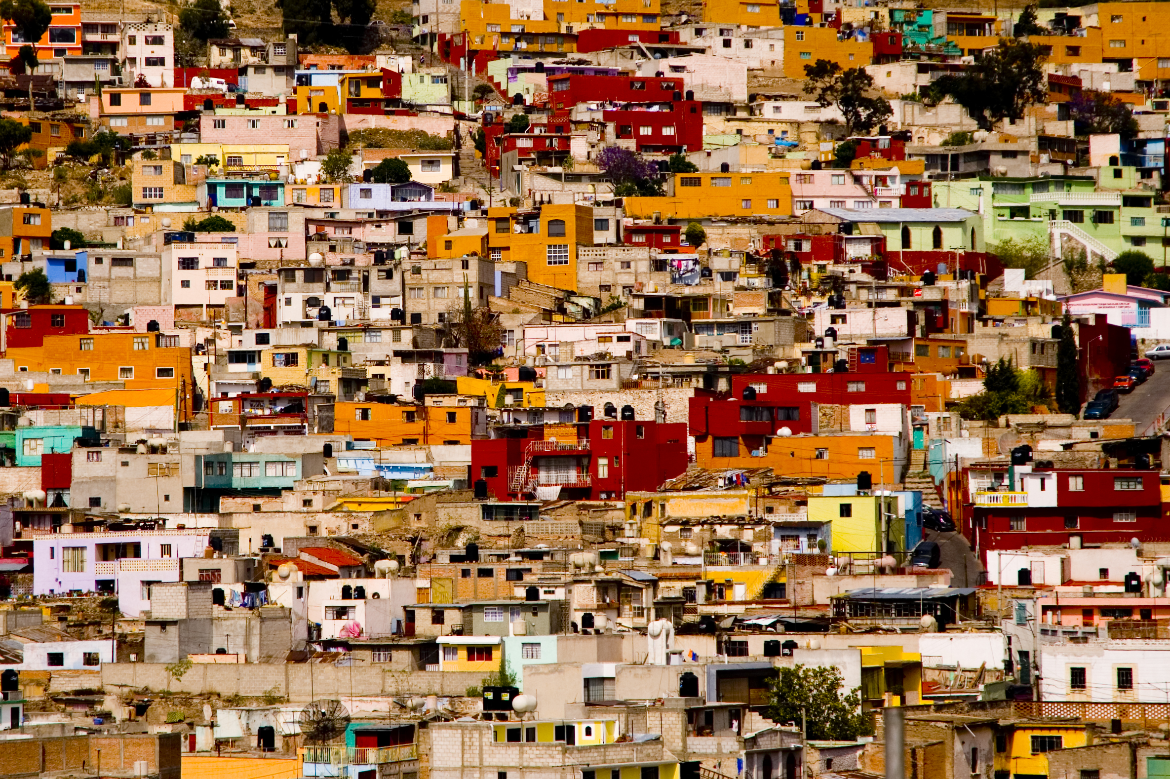 Houses on slope of Cerro de Cubitos (Cubitos Mountain) — in the city of Pachuca, Hidalgo state, México.